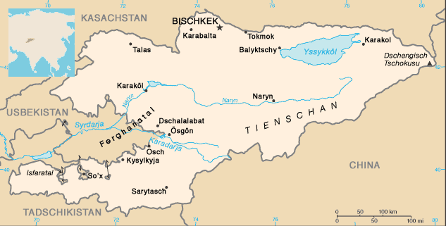 map of Kyrgyzstan, German transkription